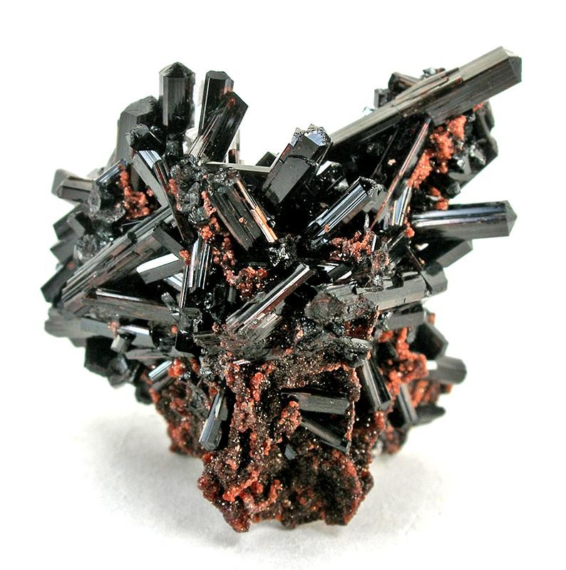 Manganvesuvianite Locality: Wessels Mine (Wessel's Mine), Hotazel, Kalahari manganese fields, Northern Cape Province, South Africa (Locality at ) NOT a Gaudefroyite ! this one fooled us at first, too! It is a SUPERB mangan-vesuvianite with deep wine-red color when backlit, so you can be sure of the ID. This specimen features xls of the highest quality and the best lustre, almost glassy in brightness - rare for the species. There is some damage to smaller crystals, but most major crystals are complete, and the display is phenomenal. The matrix is sparkling, minutely crystallized andradite garnet. The large single crystal atop is doubly-terminated and almost 2 cm long tip to tip. 4.2 x 3.9 x 3.3 cm